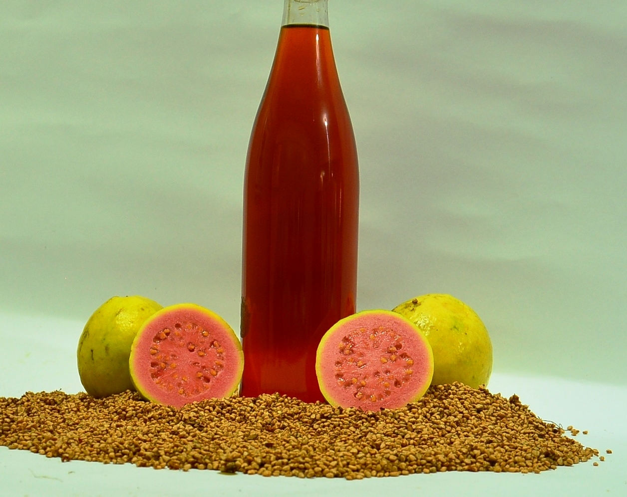 Guava virgim oil extracted from the seeds.